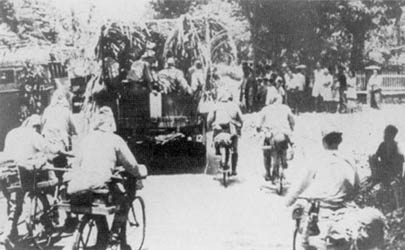 Japanese troops move through Java. (Sectie Militaire Geschiedenes Landmachstaf)